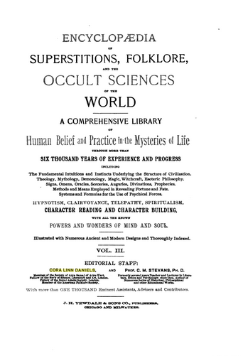 Encyclopedia of Superstitions, Folklore, and the Occult Sciences of the World: A Comprehensive Library of Human Belief and Practice in the Mysteries of Life ...